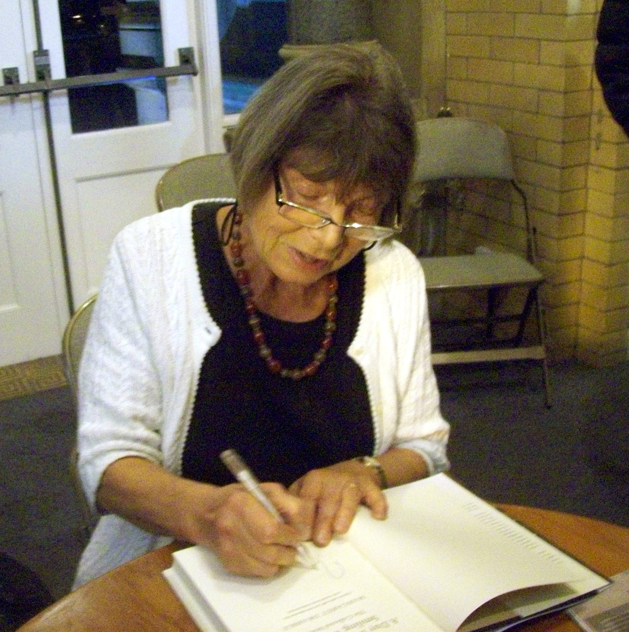 Margaret Drabble at Beverley Bookfest in Beverley, Yorkshire, England on October 15, 2011